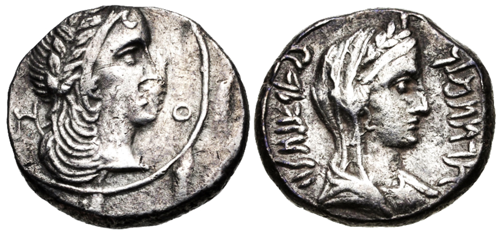 Silver drachm of Aretas IV with his wife Huldu from 2 BC (16.5 mm, 4.38 g)